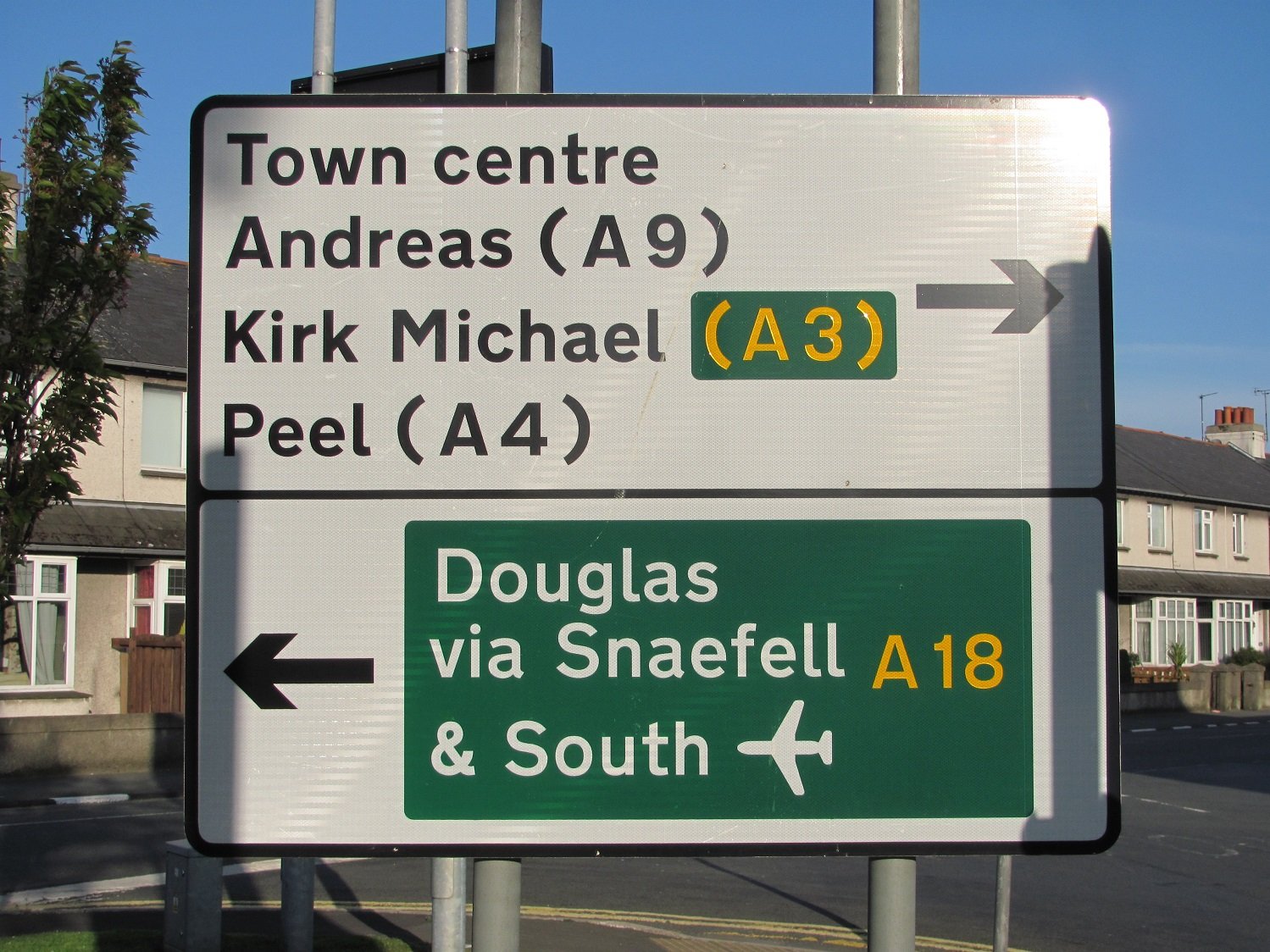 Description : Windy Corner, A18 Mountain Road Sign Source : 11th Milestone at en.wikipedia Permission See below